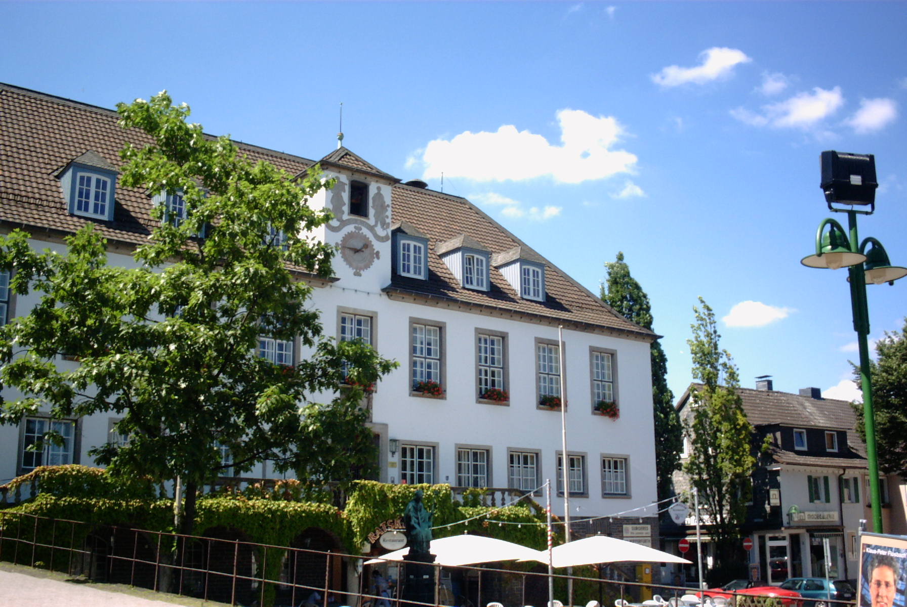 Town hall of Wipperfürth - Rathaus von Wipperfürth Author J. Berger Licence GNU FDL and CC-by-SA